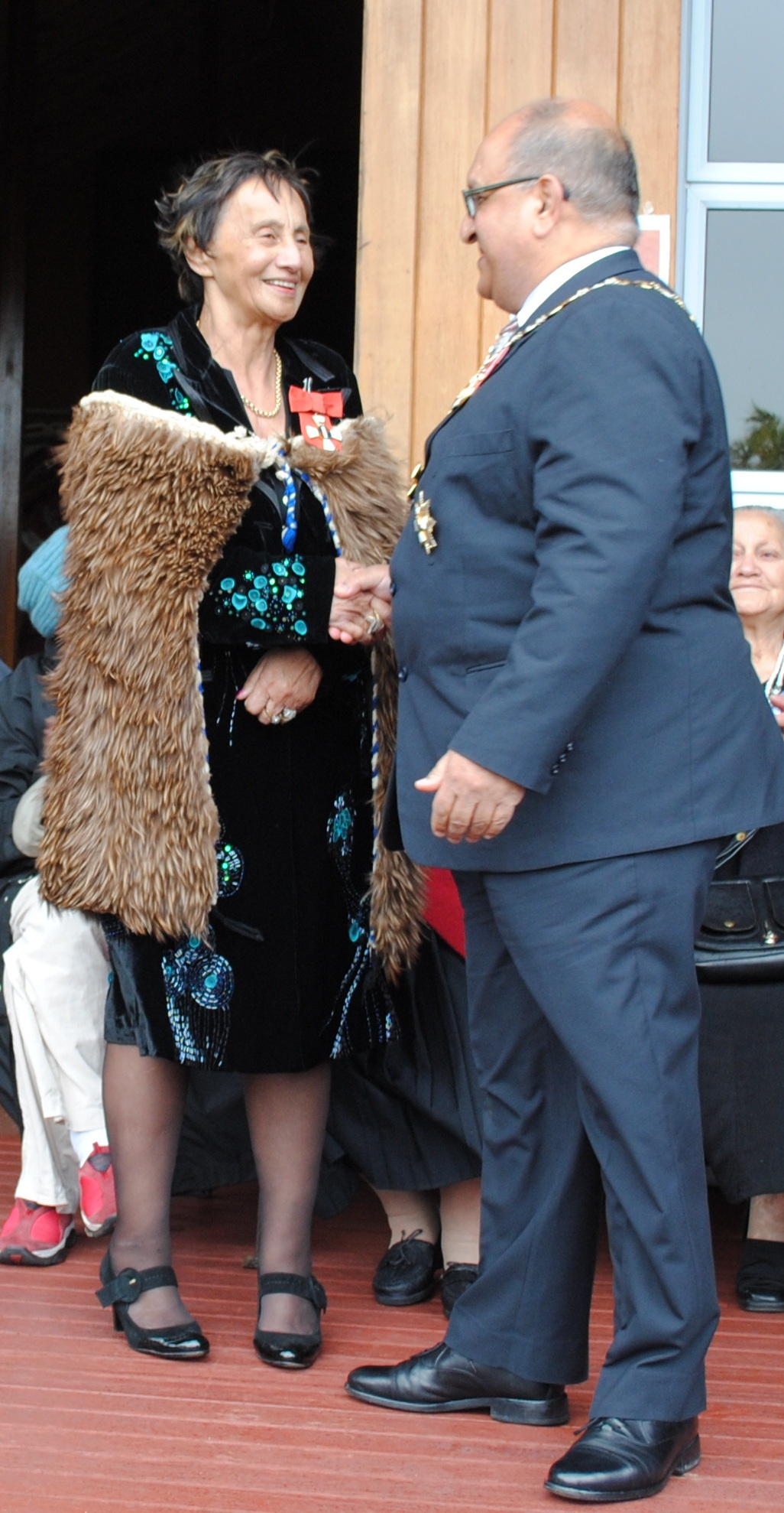 June Jackson, after her investiture as DNZM, for services to Māori, by the governor-general, Sir Anand Satyanand, at Ngā Whare Wātea Marae, Māngere, on 18 September 2010.